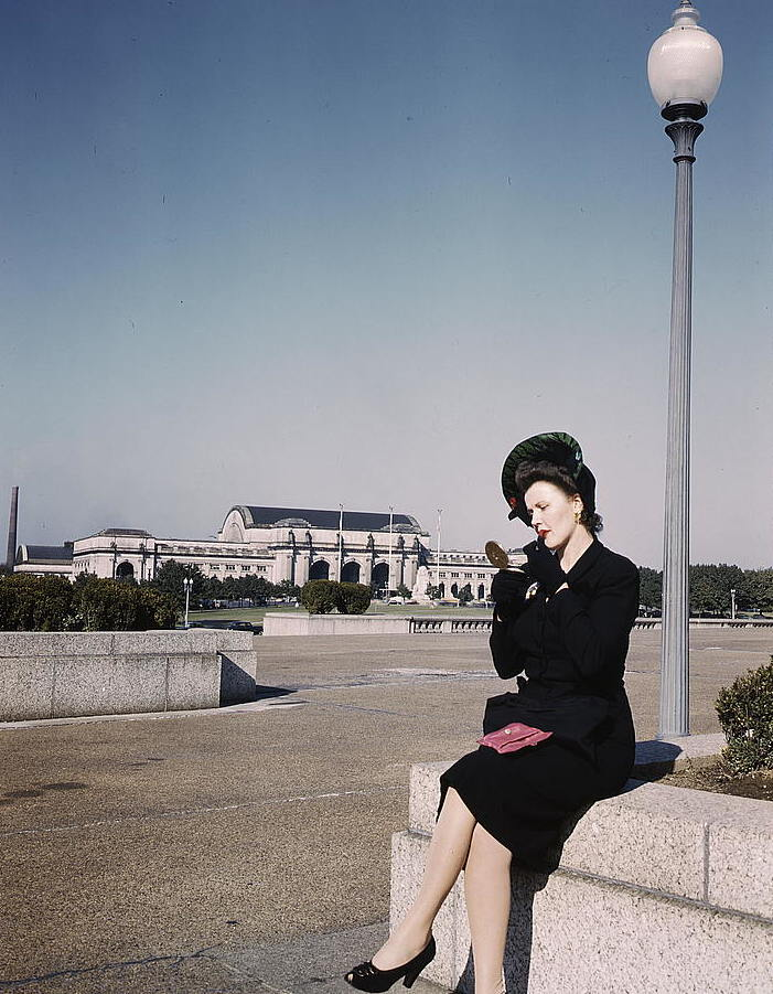 Woman putting on her lipstick in a park with Union Station behind her, Washington, D.C.